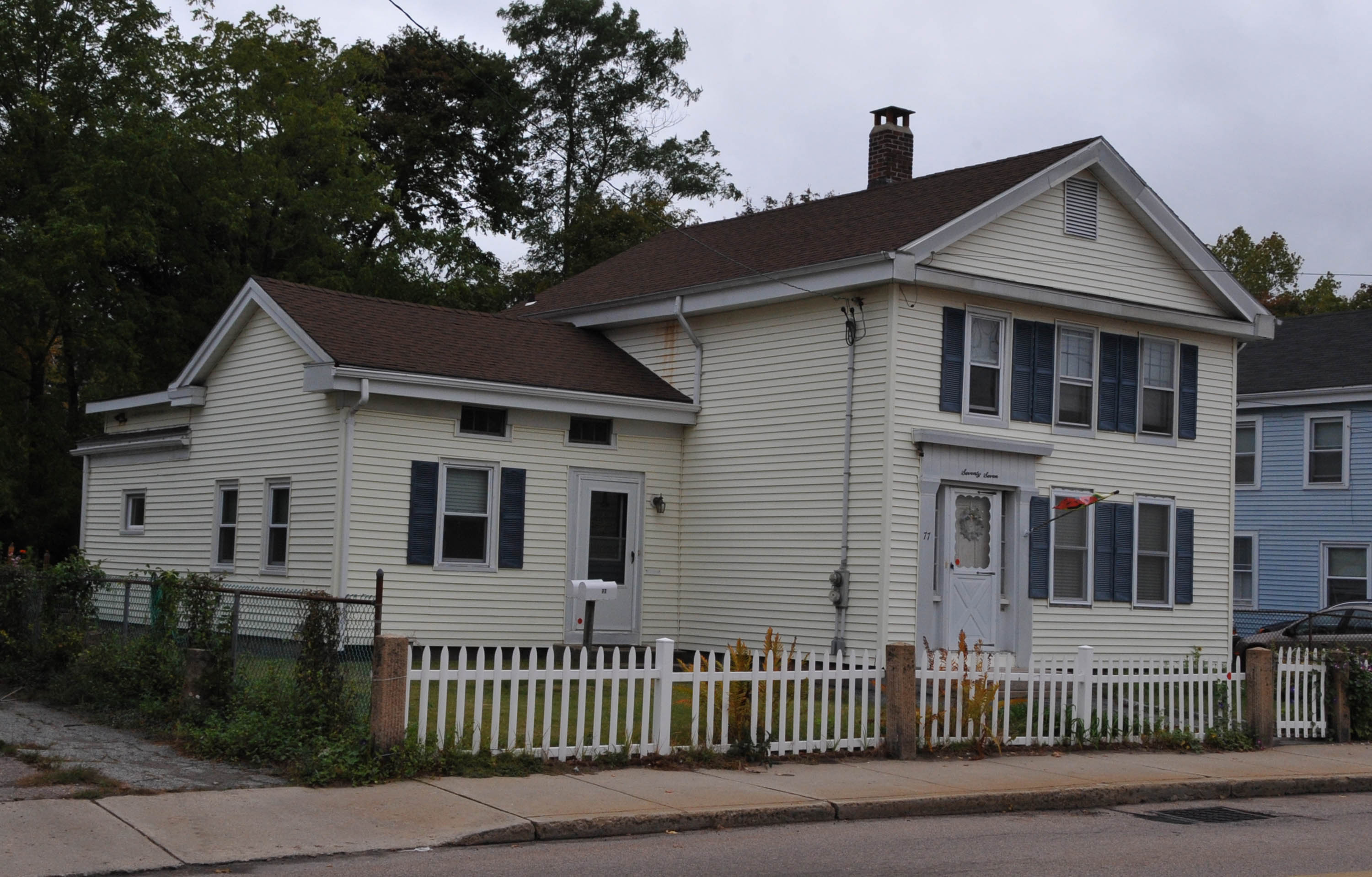 ONE OF THE WORKER HOUSES OF CAMPBELL AND BABCOCK MILL ON MECHANIC STREET